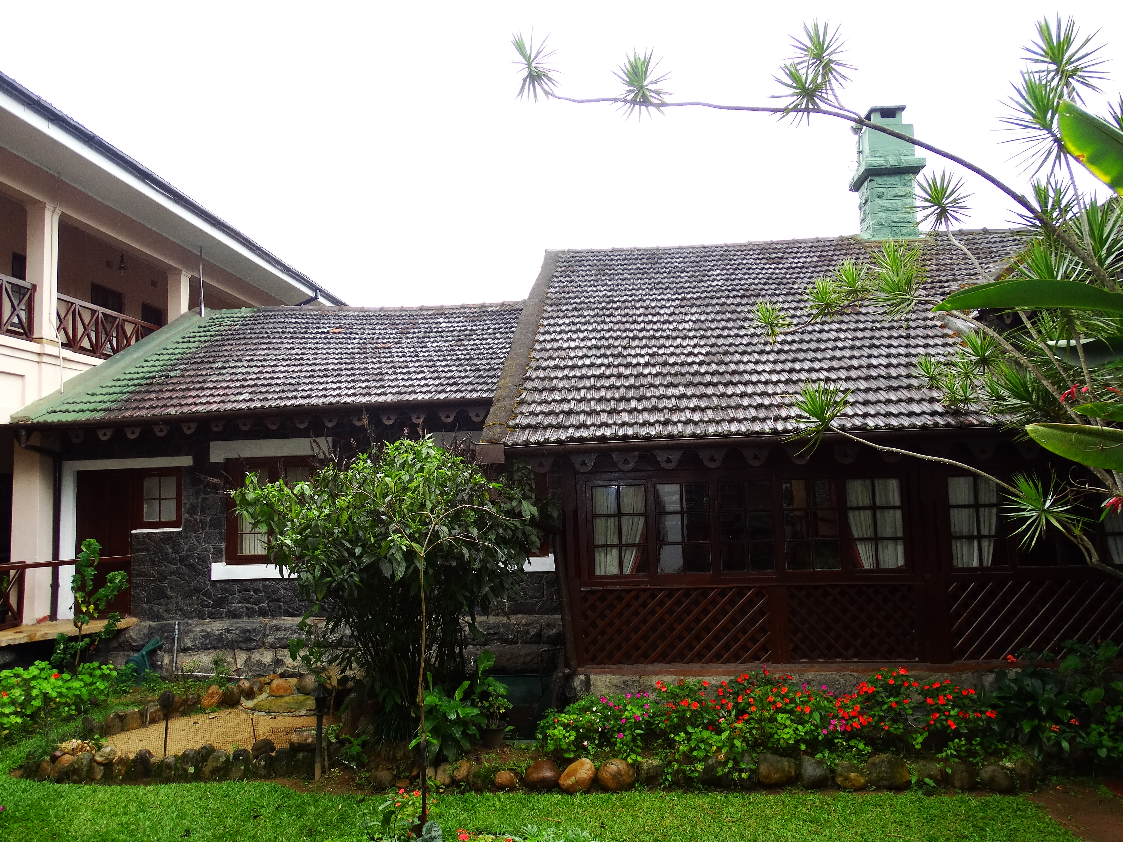 Garden of Colonial-Era Bandarawela Hotel - Bandarawela - Hill Country - Sri Lanka - 01